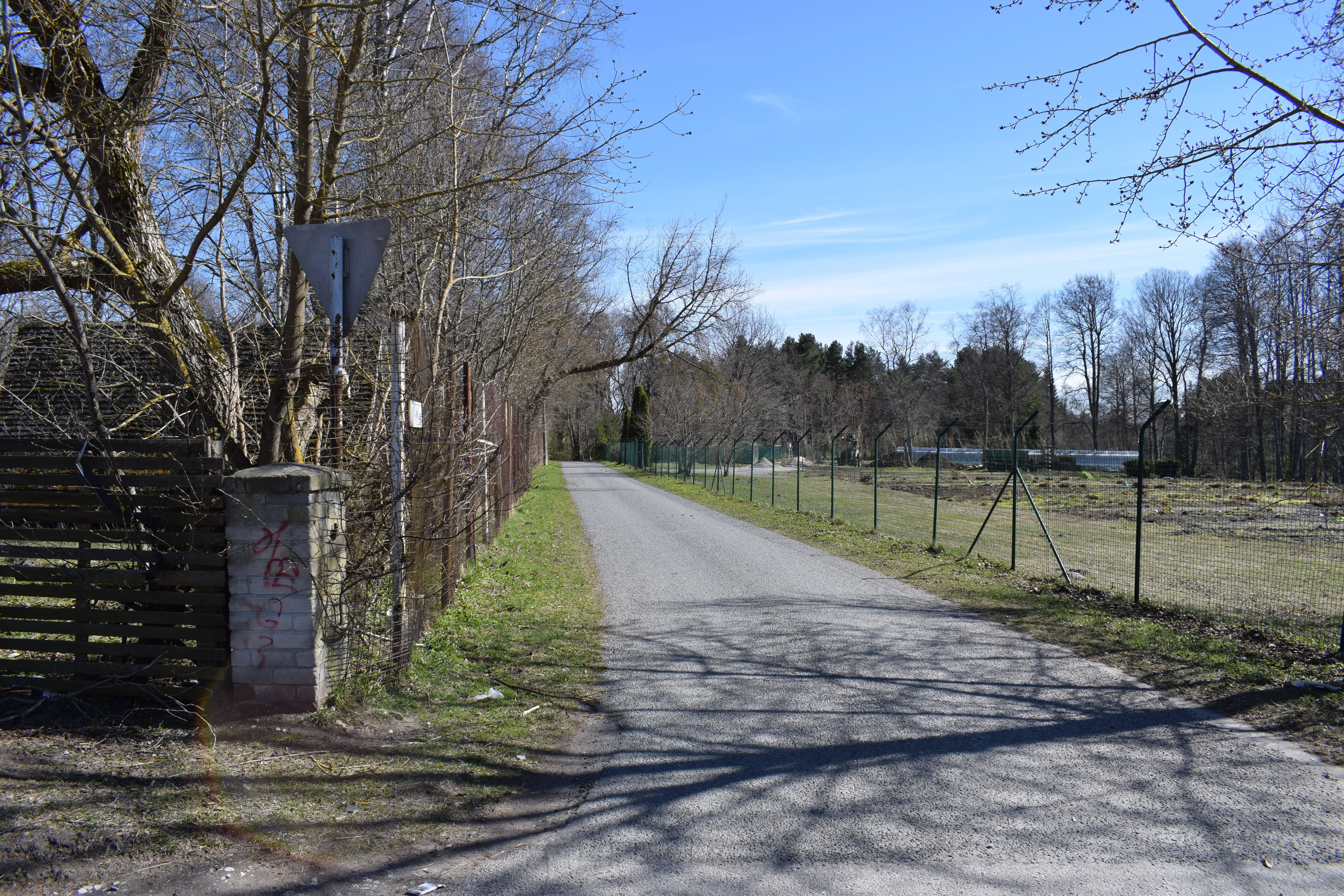 Kiviaia street